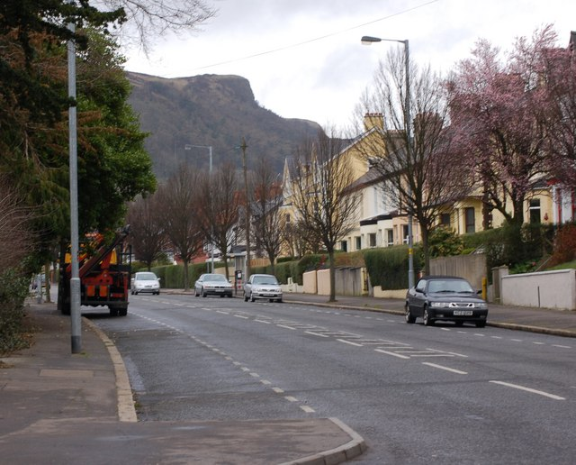 The Cavehill Road The Cavehill Road is a residential road which runs from the Antrim Road to the Ballysillan Road. This view is towards the Cavehill.